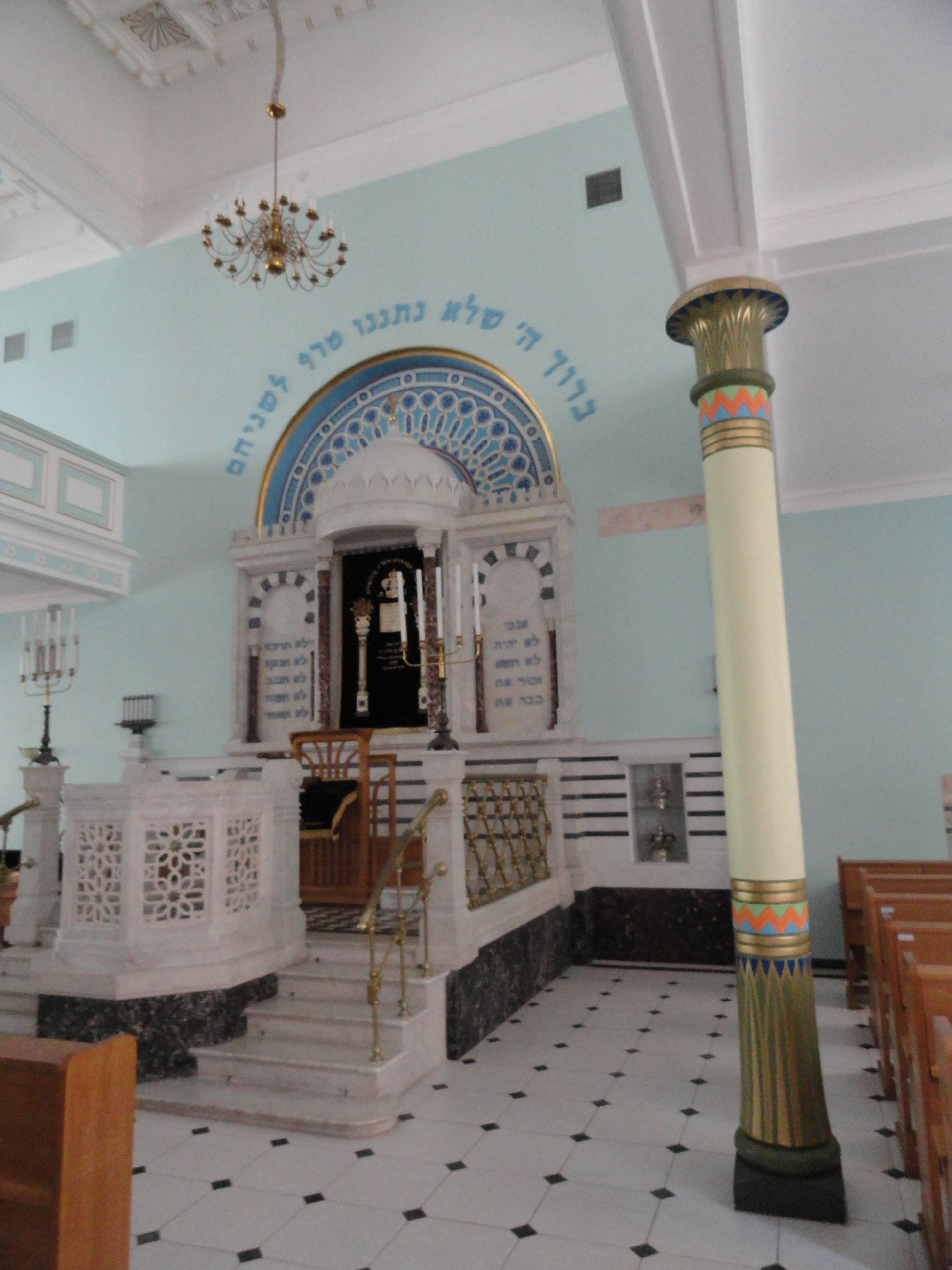 Synagogue of Riga (Litvia). The Aron Kodesh